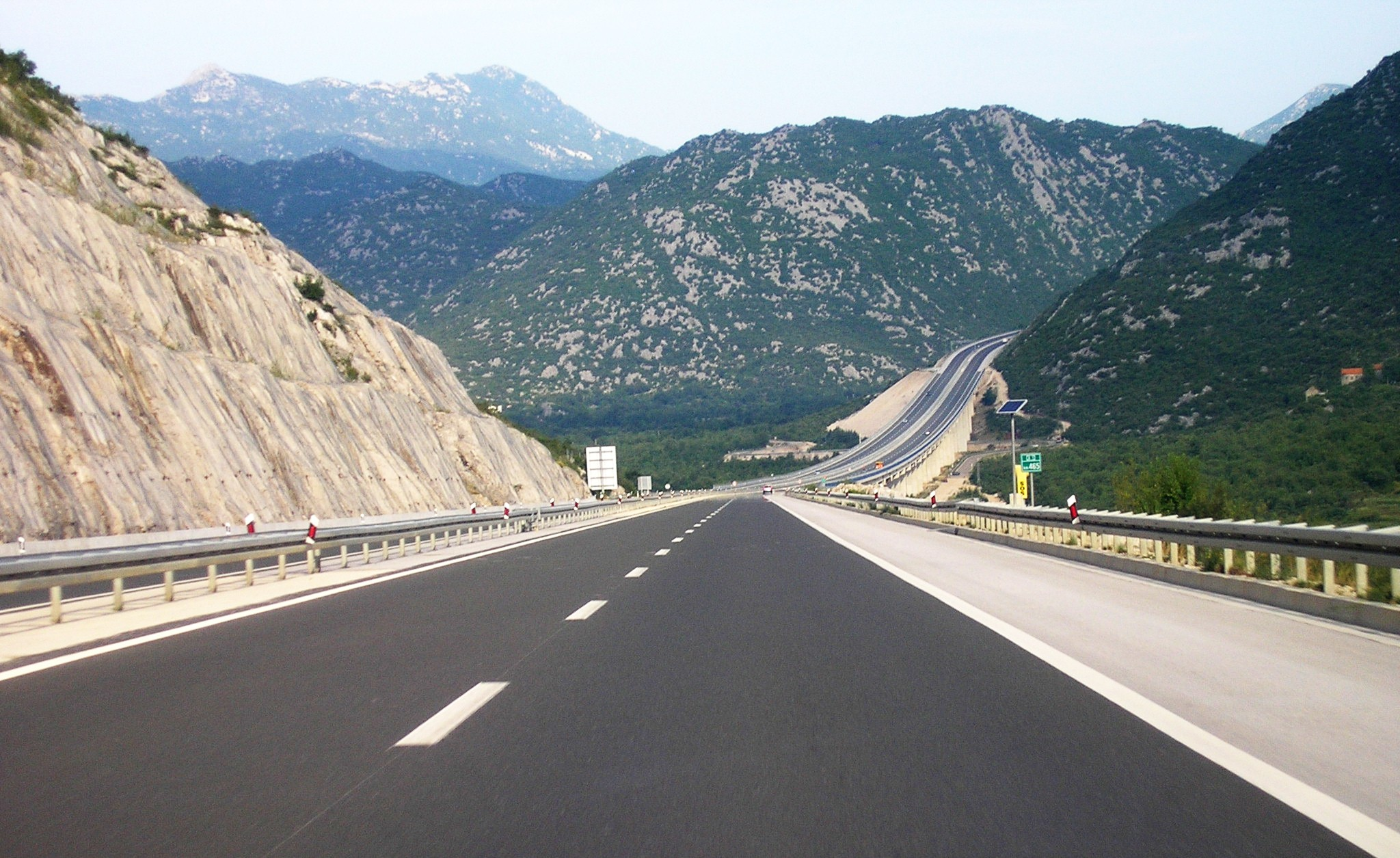 Kotezi viaduct on A1 highway in Croatia